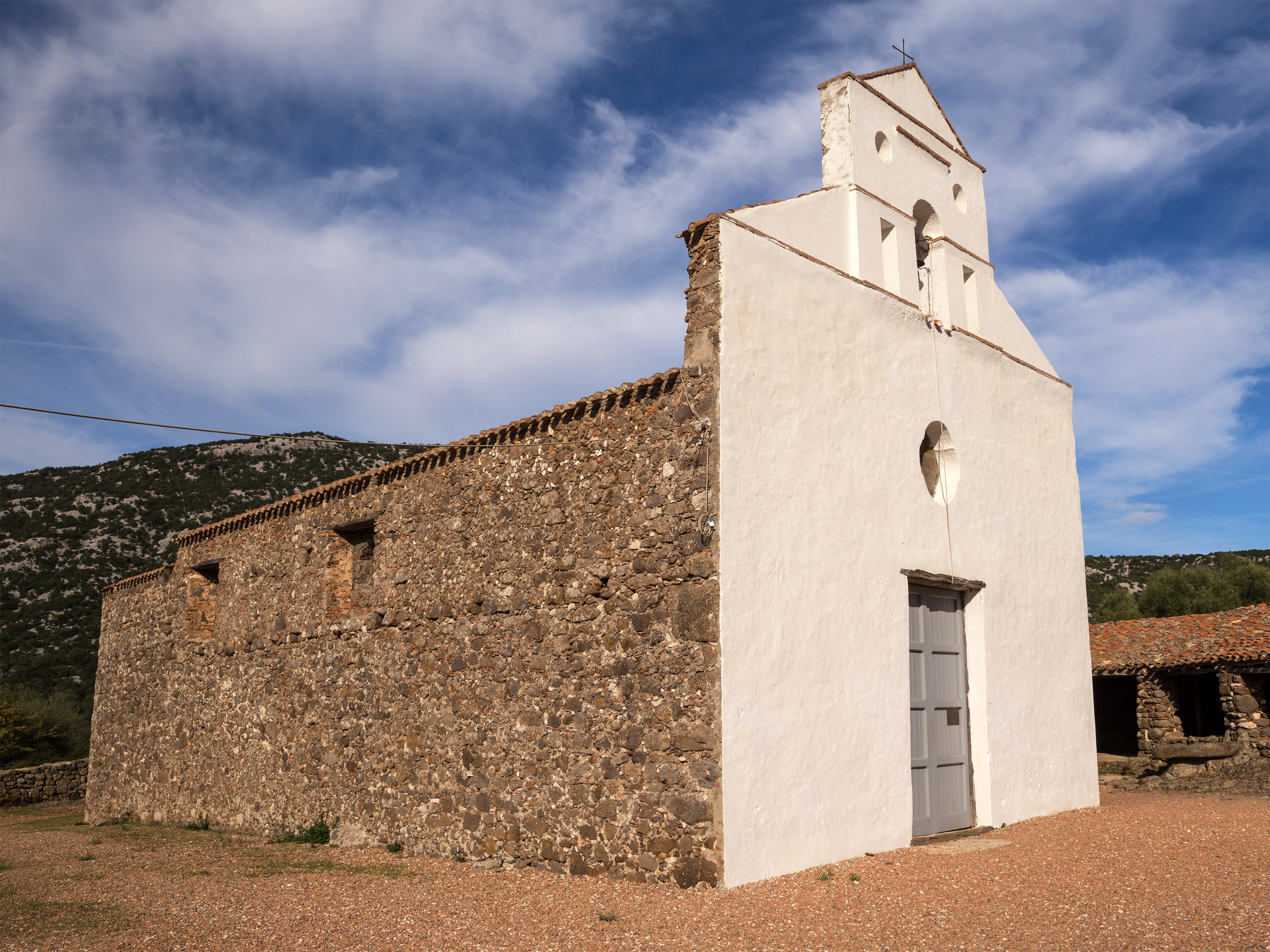 Church San Pietro di Golgo, Sardinia